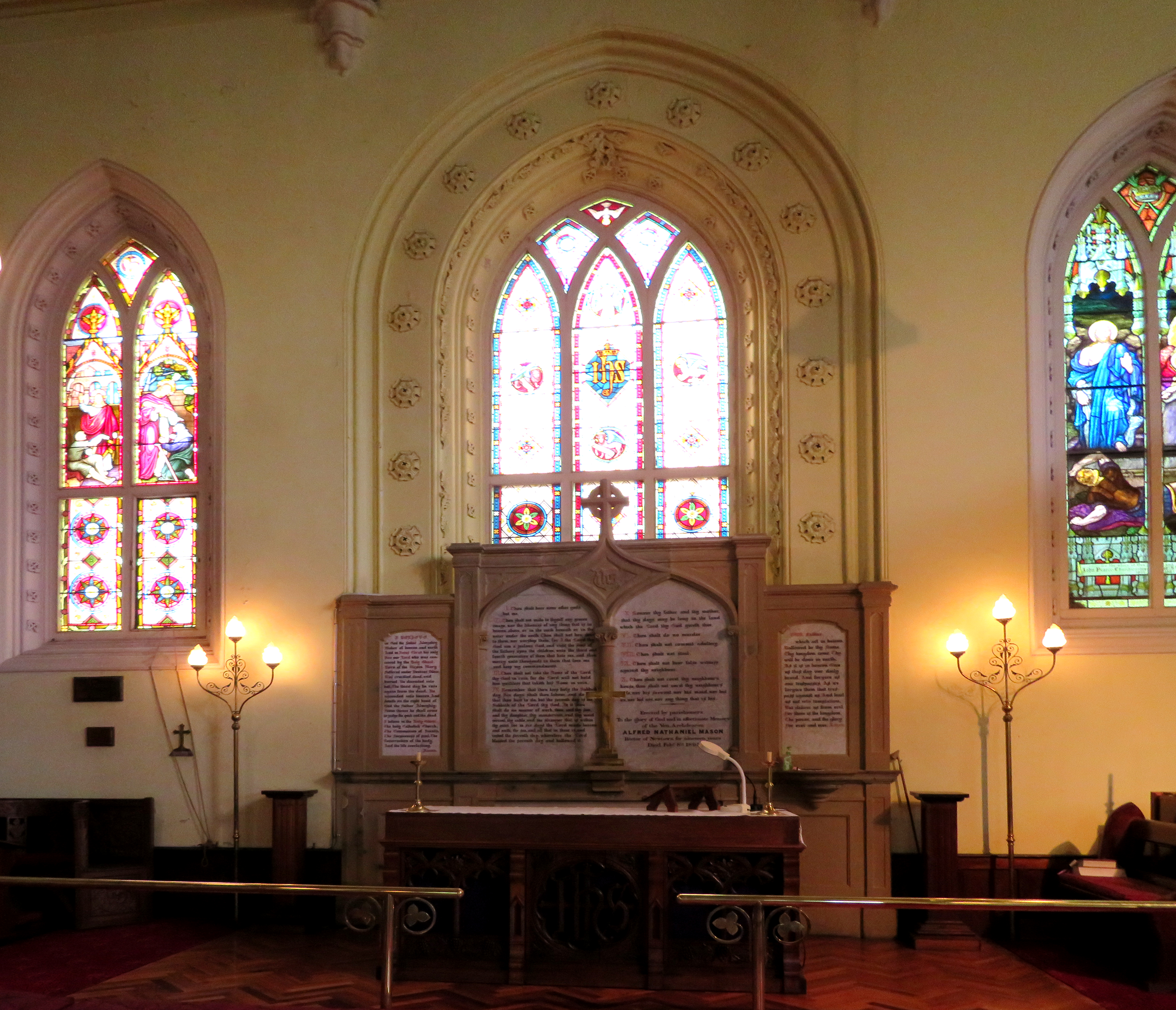 Altar, St John's Anglican Church, New Town